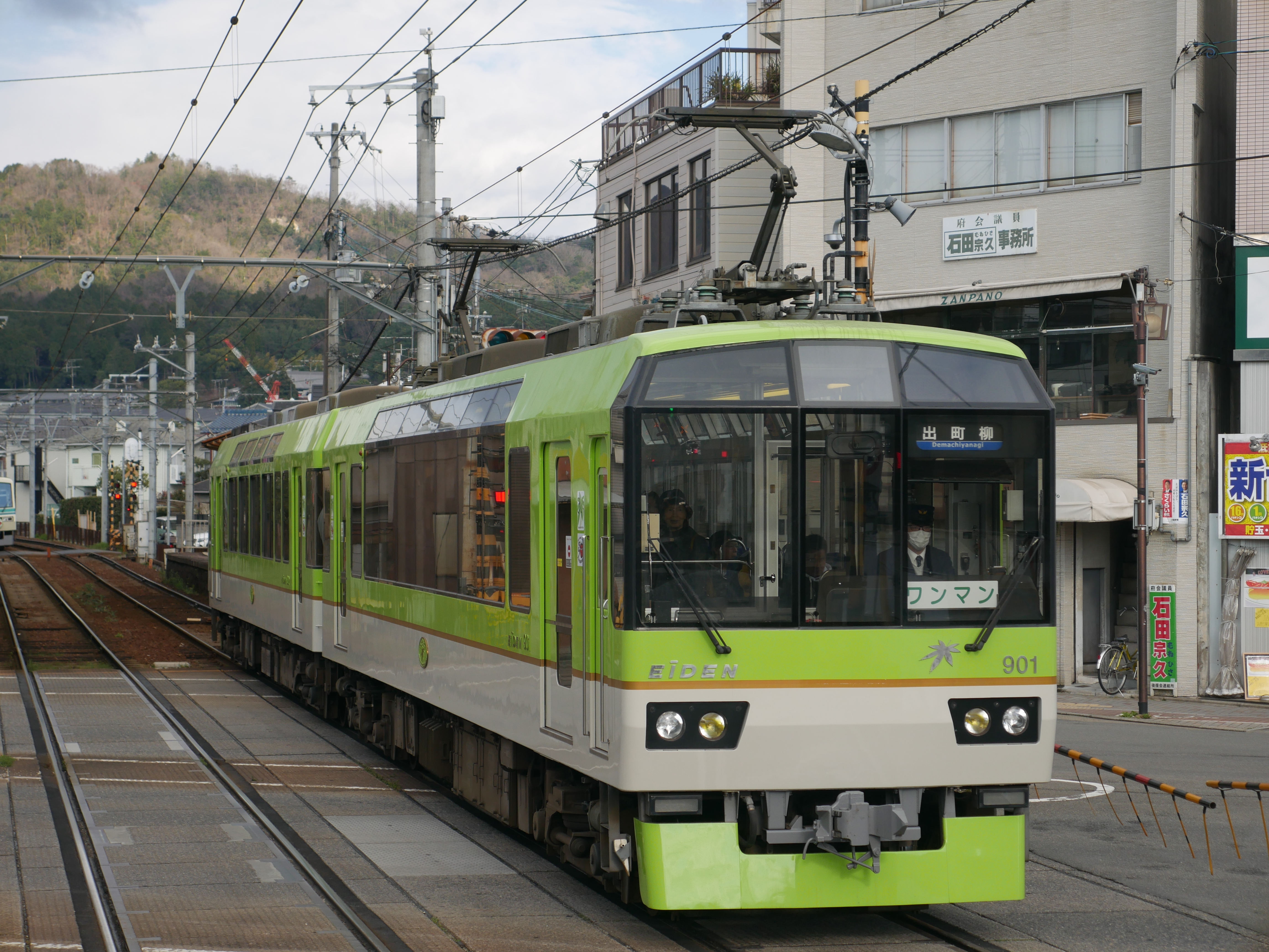 Eizan Railway DEO 901 with Aomomiji (green maple tree) Kirara livery leaving Mototanaka station